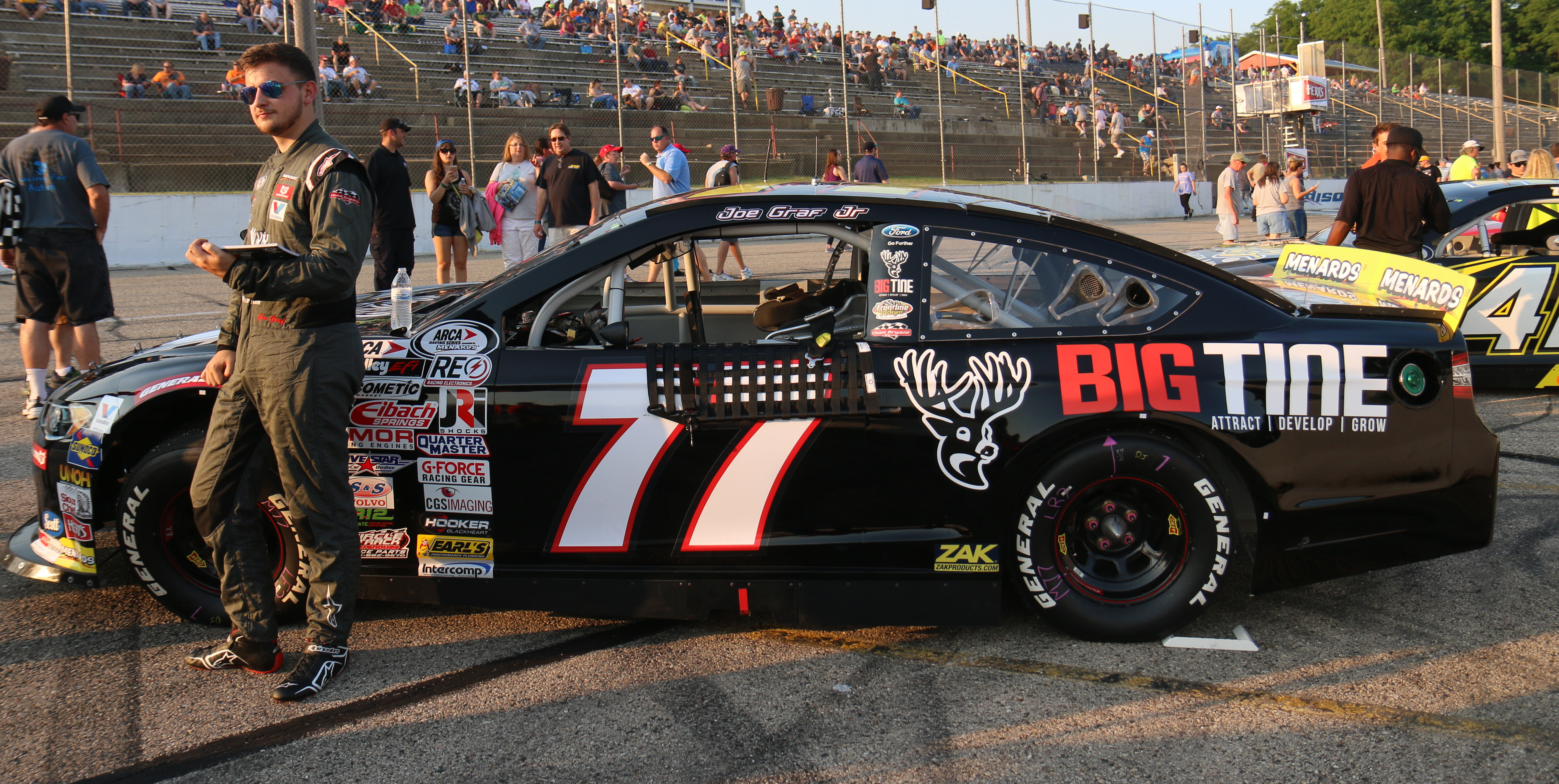 The #77 car of Joe Graf Jr on display at the 2018 ARCA race at Madison International Speedway.